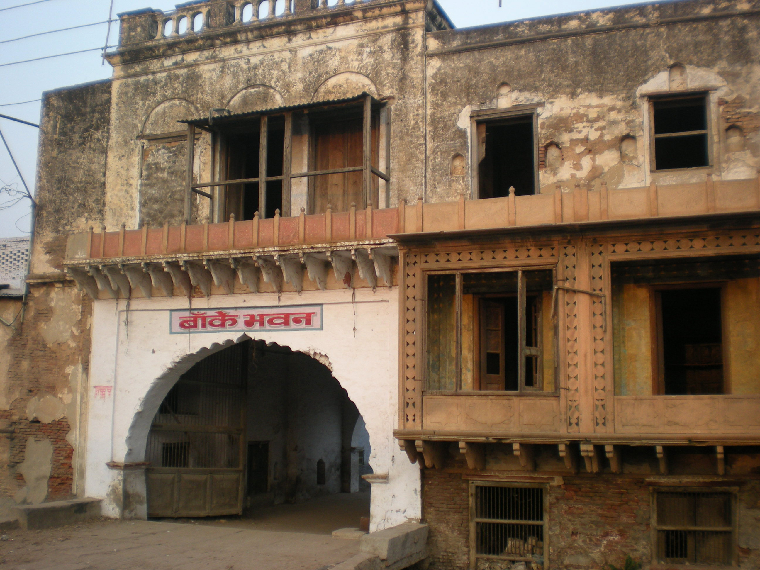 Banke Bhawan Residance of Kaka Hathrasi, Poet form India